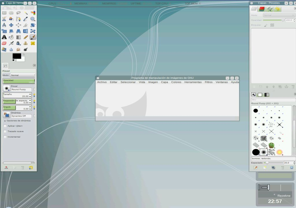 Screenshot of a Spanish version of GIMP Software.